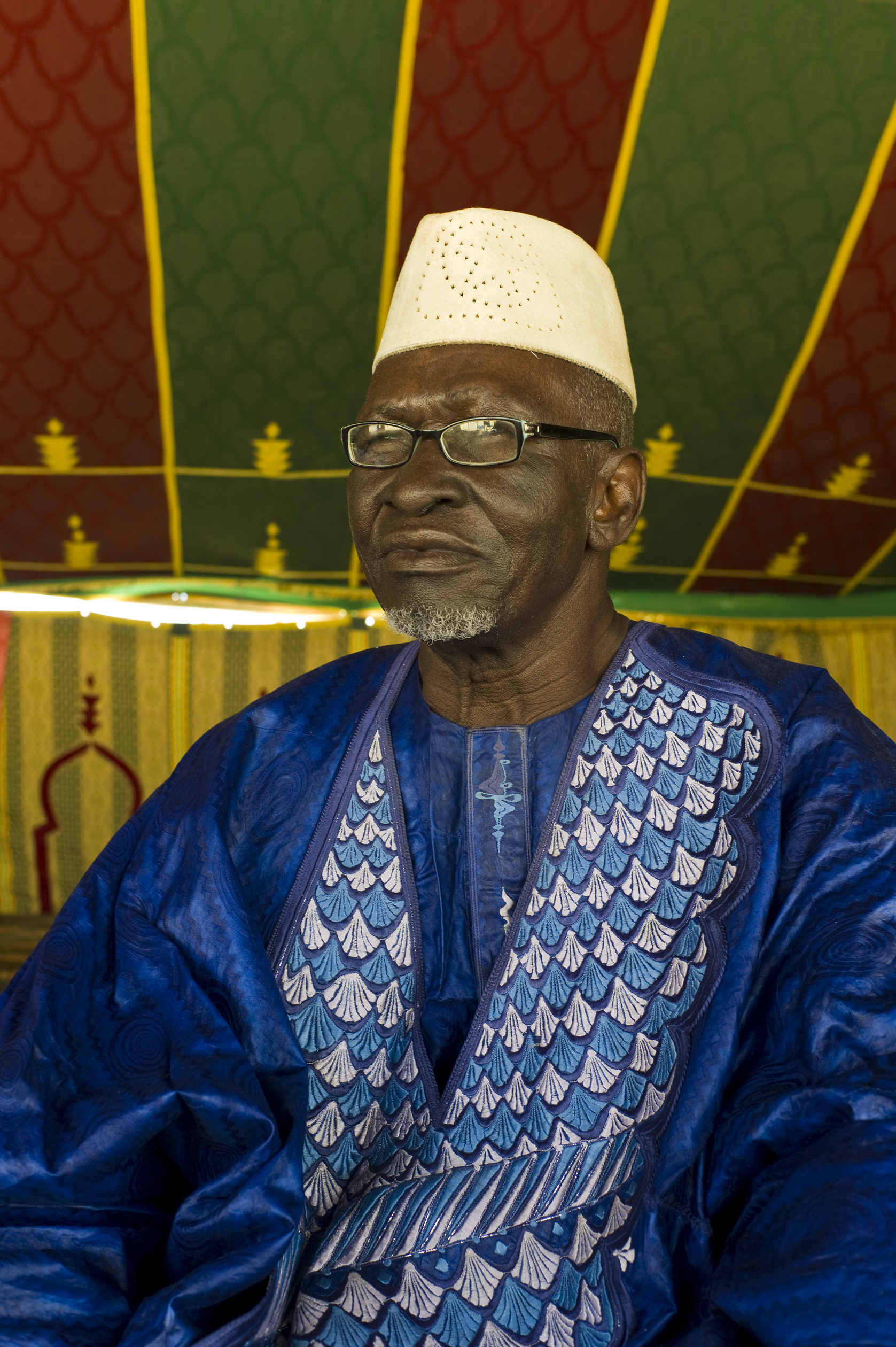 A man of the Songhai people near Timbuktu, Mali 2012.